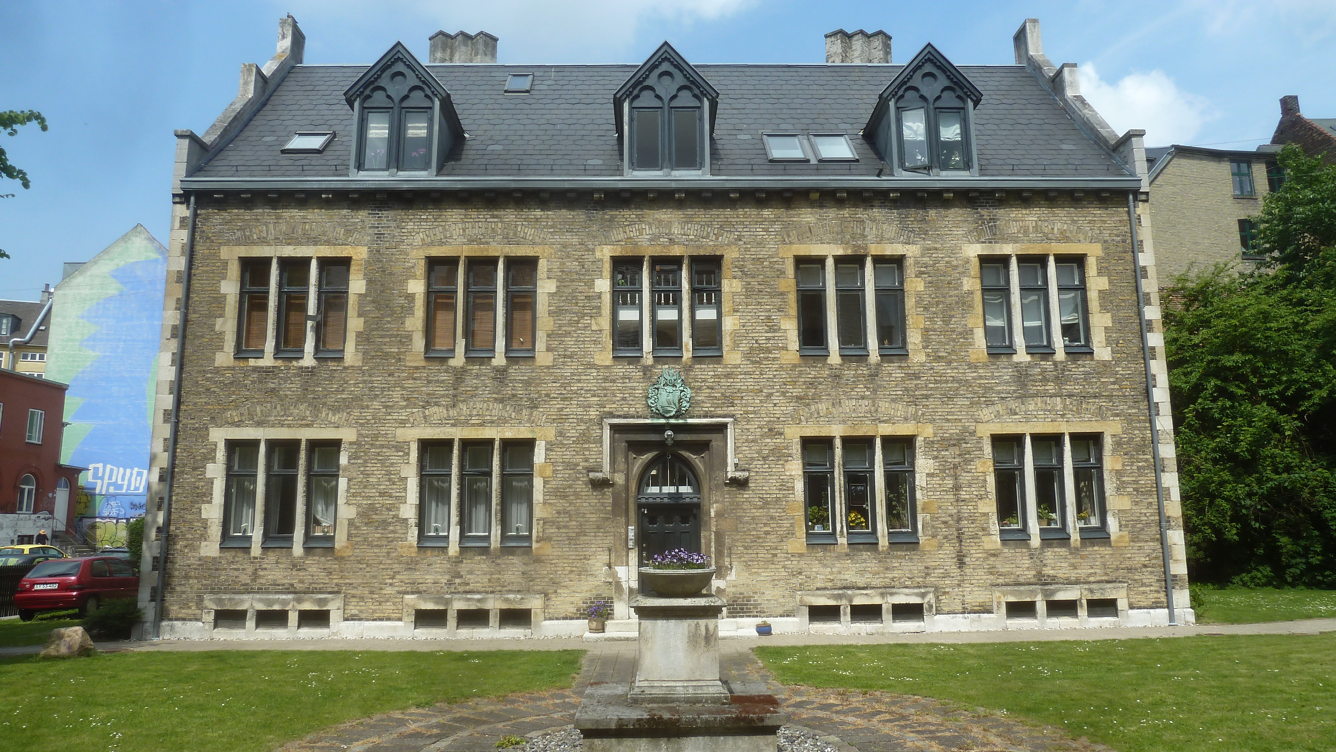 The North wing of Den Suhrske Stiftelse on Valdemarsgade in Copenhagen, Denmark